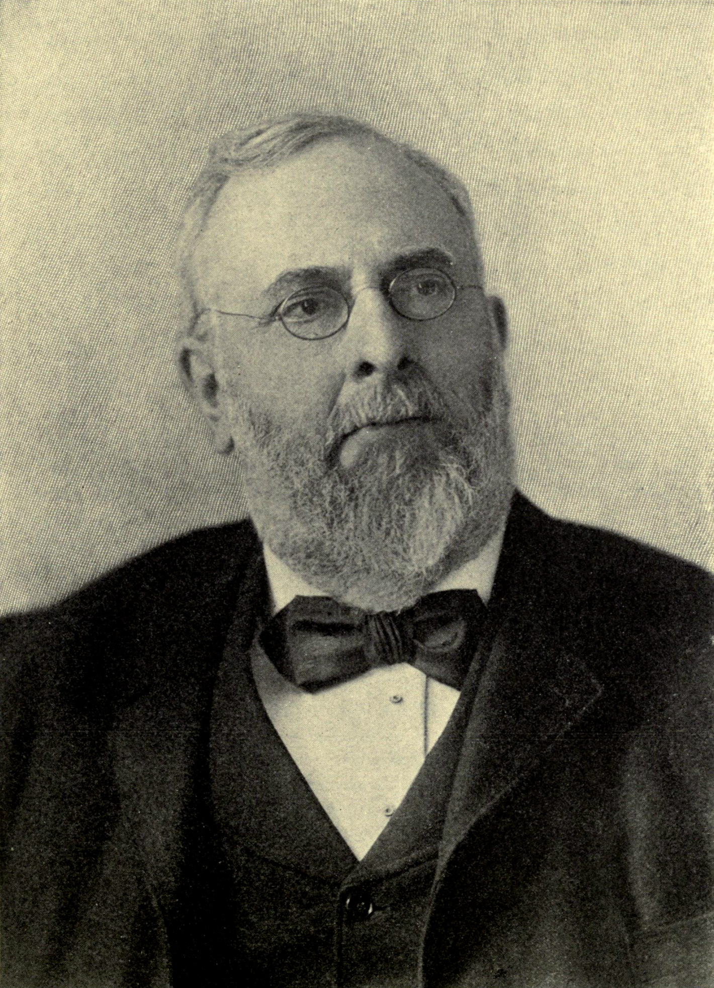 Reverend James Henry Wiggin, editor of Science and Health by Mary Baker Eddy, founder of Christian Science